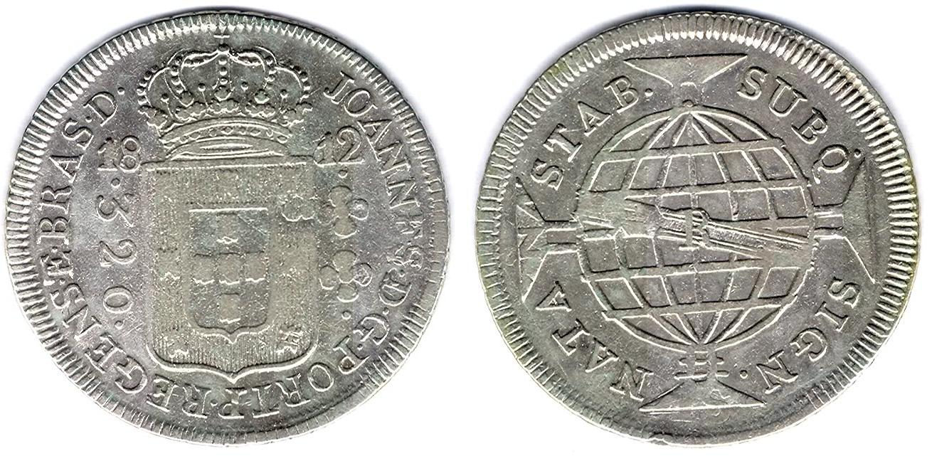 Brazillian silver coin of 320 réis, called "pataca".